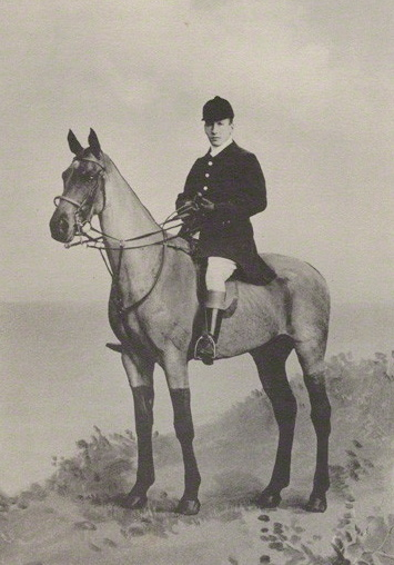 Photography of Robert Sanders, 1st Baron Bayford